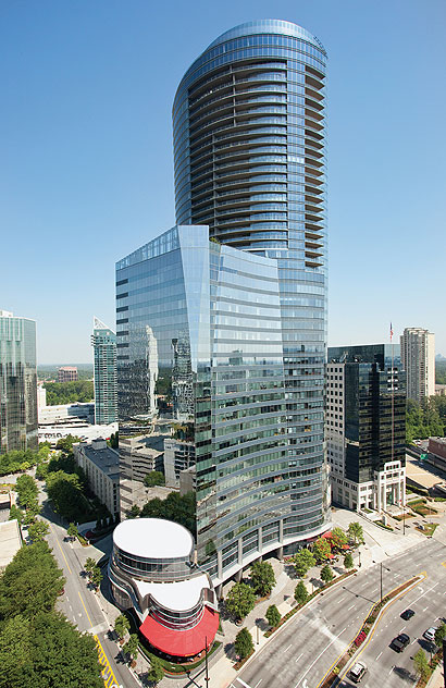 The Sovereign condominium building in the heart of the Buckhead area in Atlanta, GA